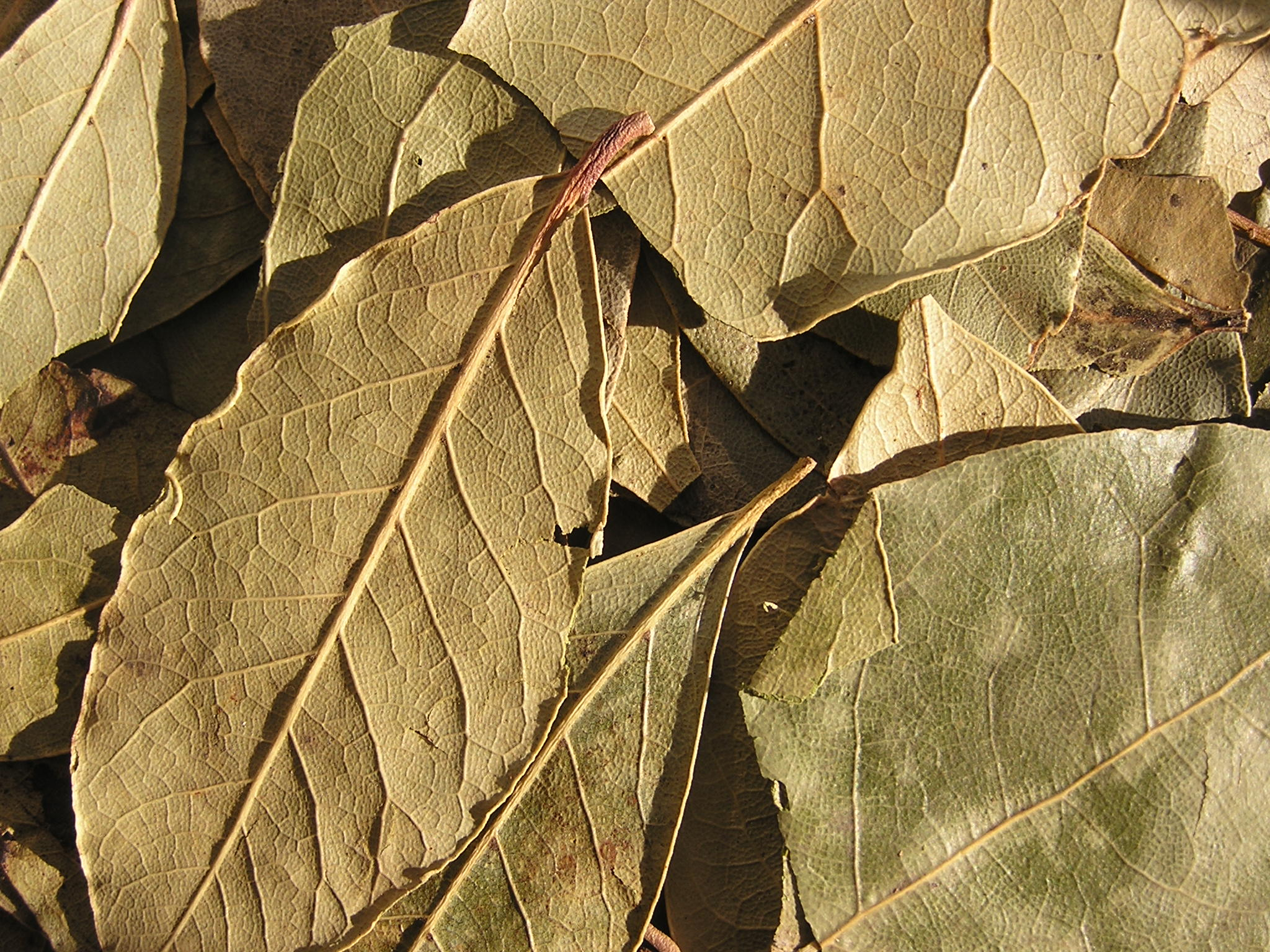 Spice. Bay Laurel {Laurus nobilis)